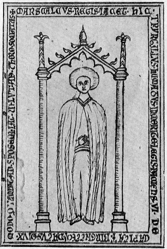 Swedish marshal Thorgils Knutsson's (died 1306) gravestone in Riddarholmen Church, Stockholm, according to a 17th-century drawing.